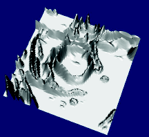 Jean Cousty : "Discrete watersheds: theory and applications to cardiac image segmentation", PhD thesis, 2007